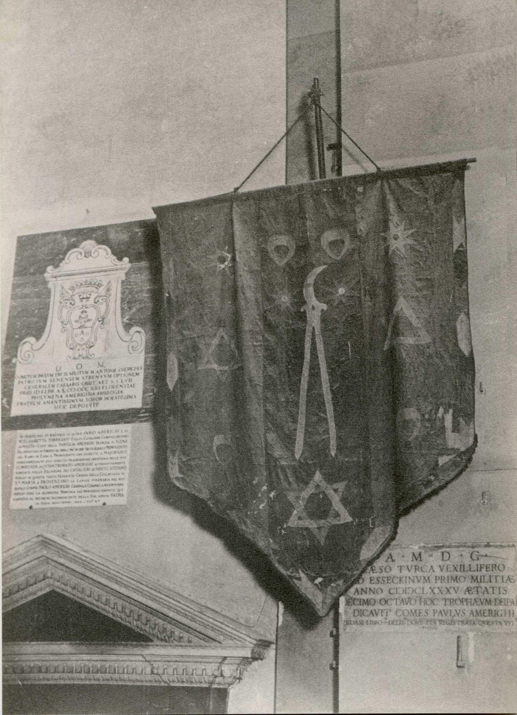 Stendardo Turkish-Battle of the Bridge of Eszech - Ripped by Count Paolo Amerighi - Patrizio di Siena (1685)